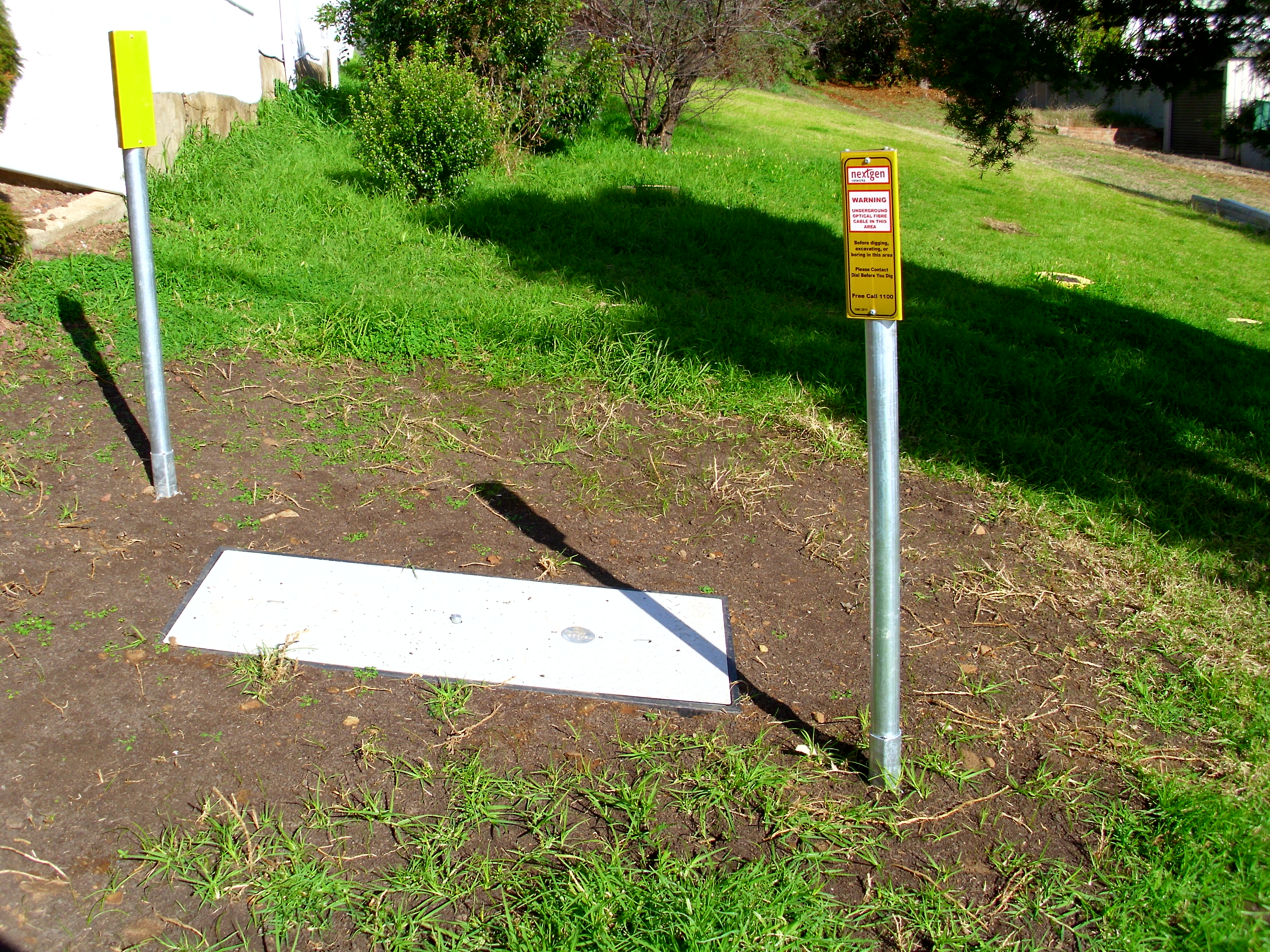 NextGen Networks pit and Underground Fibre Optic Cable warning posts in Beauty Point Drive in Wagga Wagga, New South Wales.